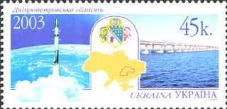 Stamp of Ukraine